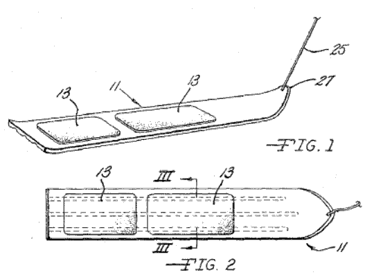 Excerpt from diagram of 3378274 for the snurfer a predecessor device to the snowboard